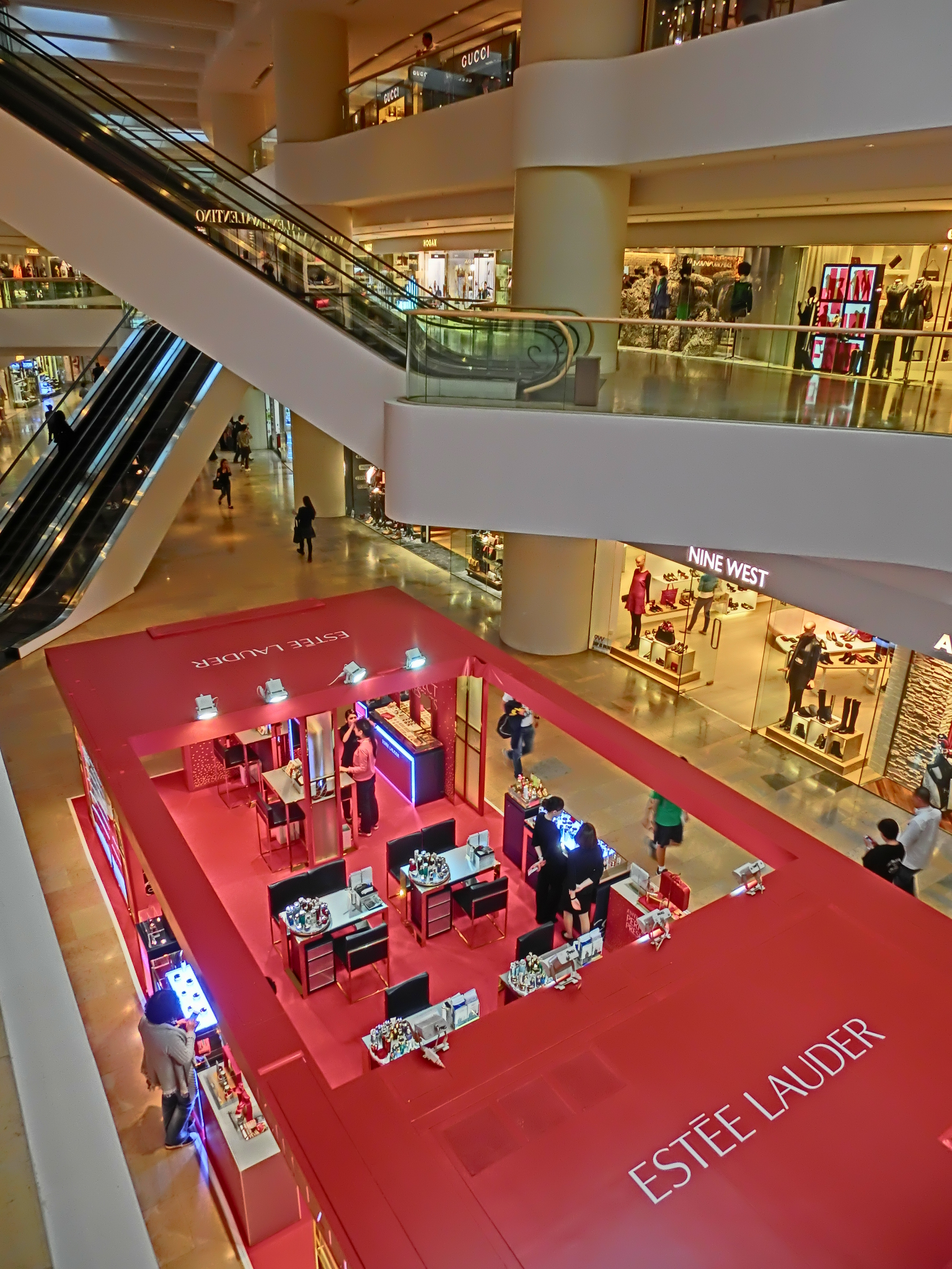 太古廣場, Pacific Place, Admiralty, Hong Kong